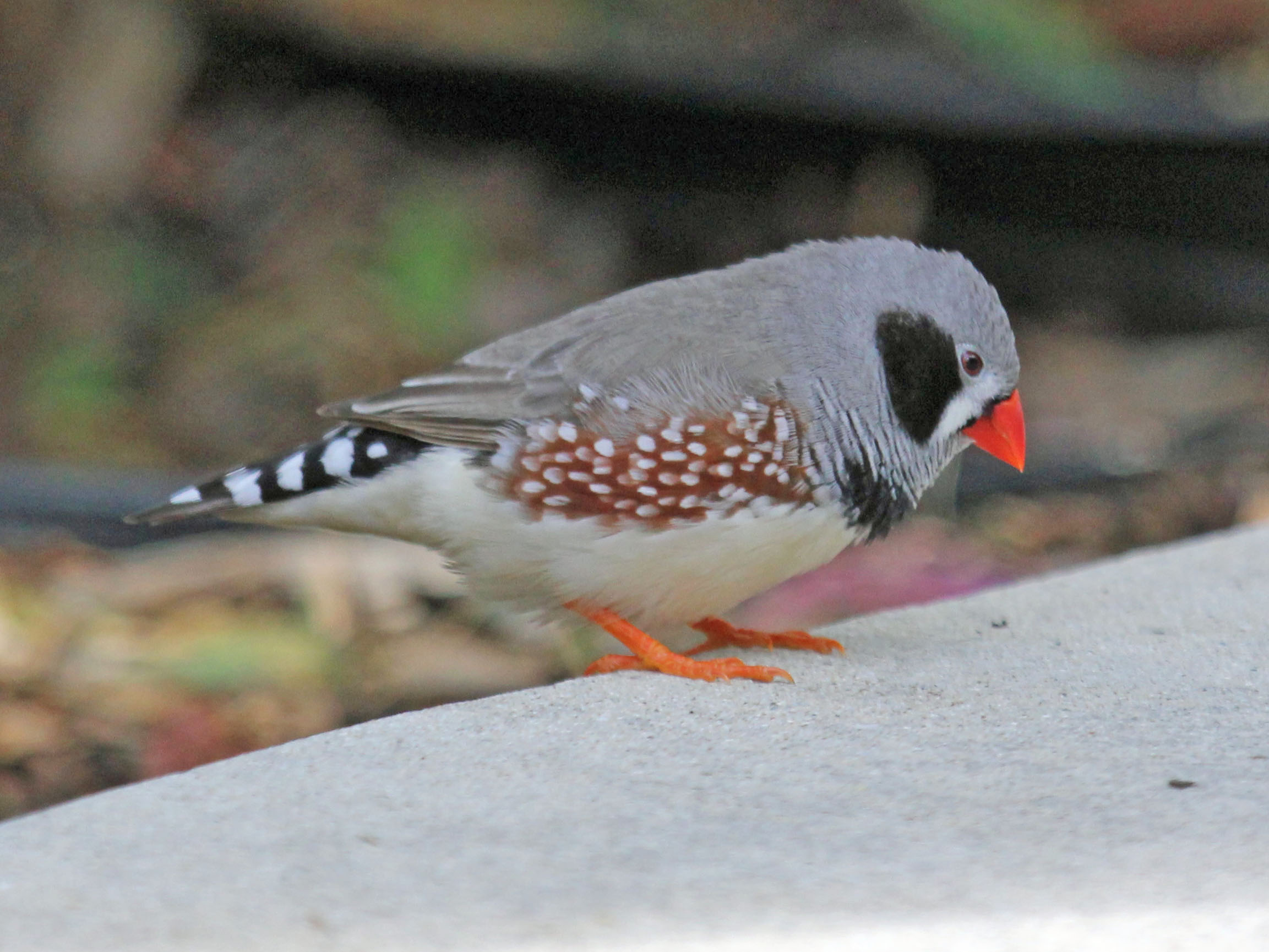 Black-cheeked Zebra Finch (Taeniopygia guttata) at Butterfly World in Florida.